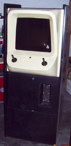 Atari Gotcha arcade game, front view